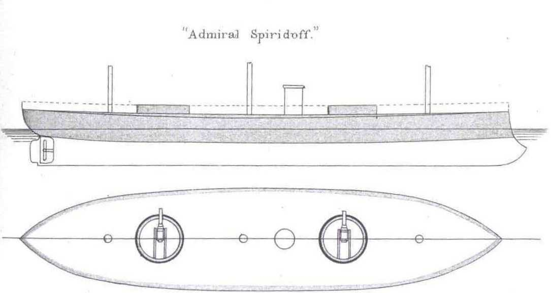 Russian turret ship Admiral Spiridov, serving 1869-1907